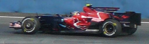 Sebastian Vettel driving for Scuderia Toro Rosso at the 2008 European Grand Prix.